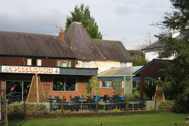 Oast House at Birdworld, Farnham Road, Holt Pound, Surrey